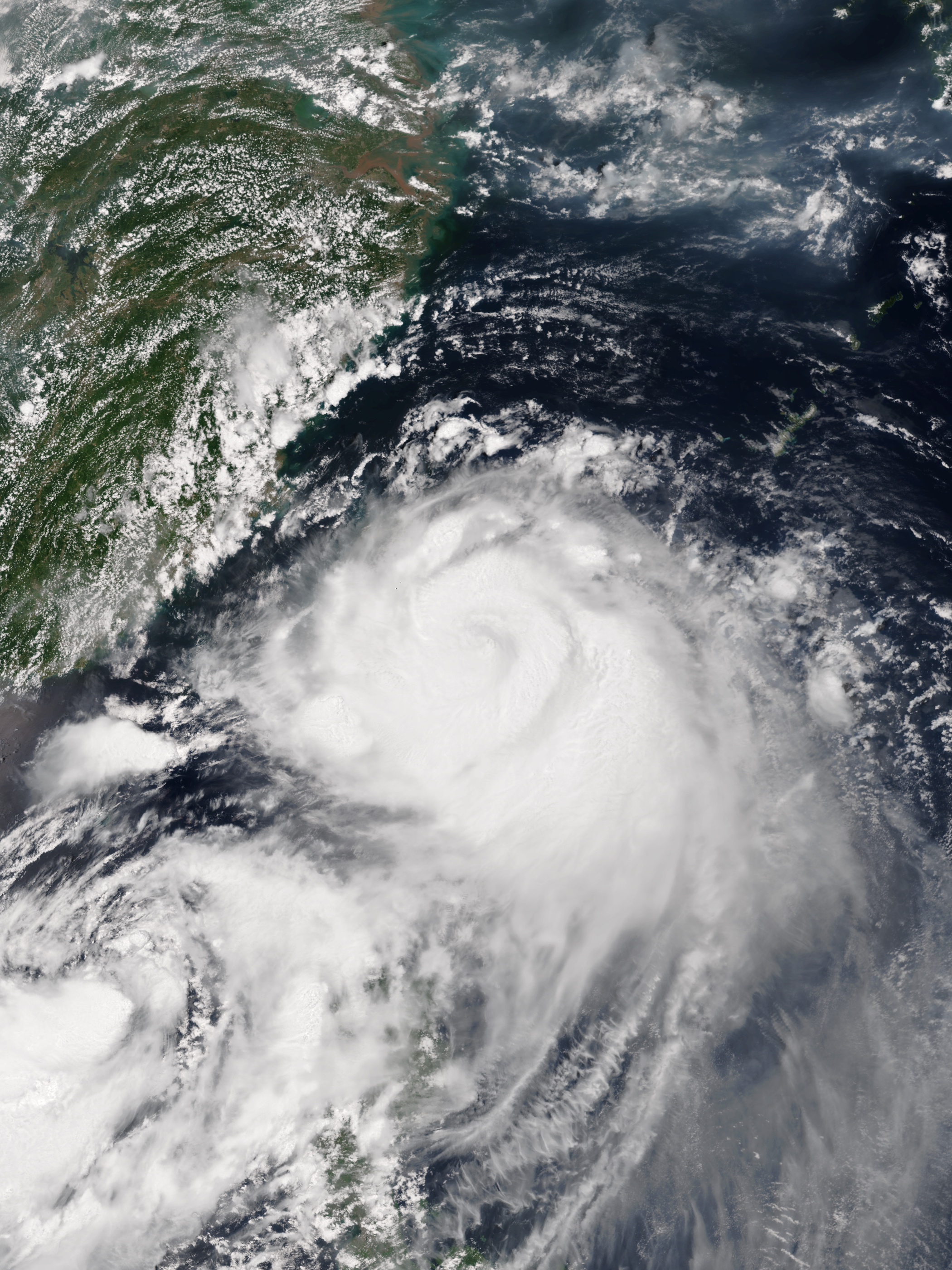 Typhoon Nesat approaching Taiwan at peak intensity on July 29, 2017.